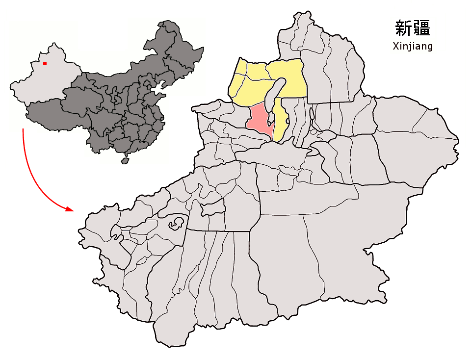 Location of Wusu City (pink) and Tacheng Prefecture (yellow) within Xinjiang autonomous region of China Map drawn in september 2007 using various sources, mainly : Xinjiang Uygur autonomous region administrative regions GIS data: 1:1M, County level, 1990 Xinjiang Counties map from